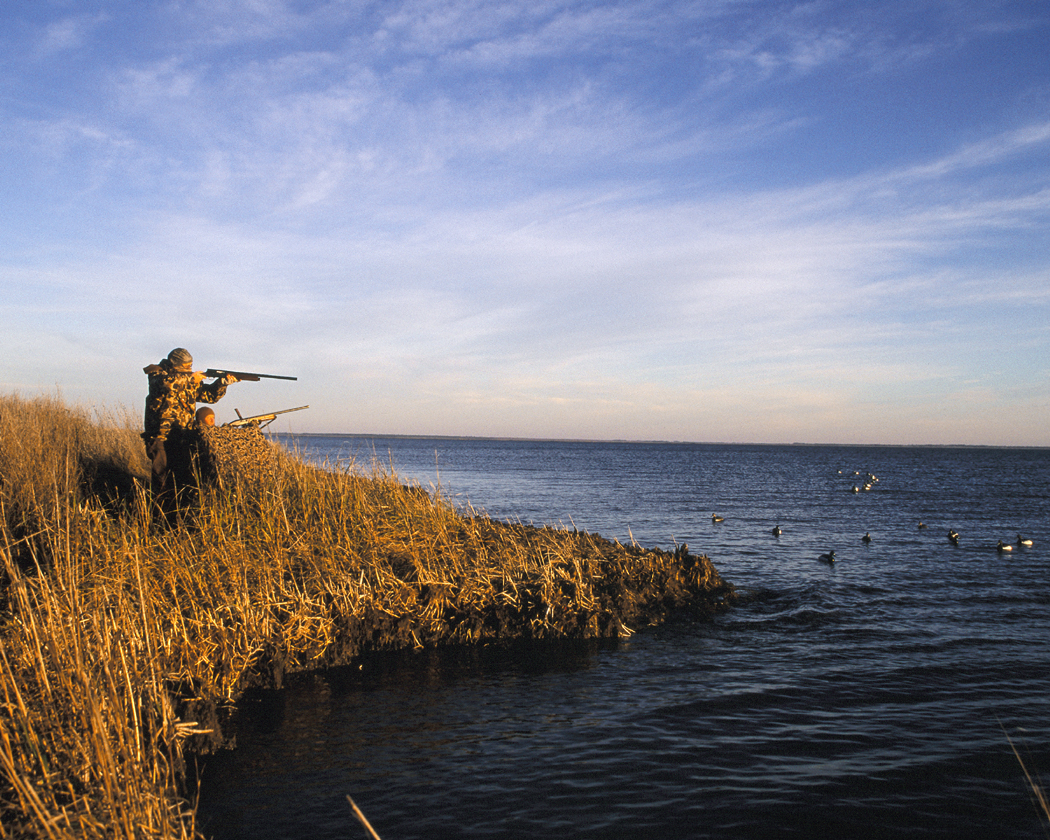 Duck hunting at Swanquarter National Wildlife Refuge The gun fired by the man standing is a Browning Auto-5 or possibly a model based on it.